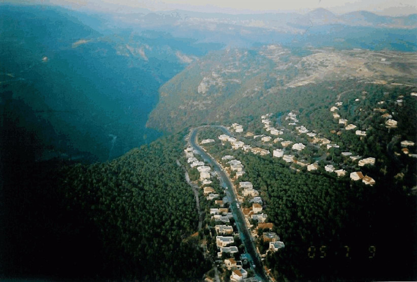 Mitzpe Hila located in the Western Galilee on the western sloping of the Ziv hills, altitude of 510 m above sea level, 5 km west to Ma\'alot-Tarshiha. The access road passes through the Christian village Mailya mrege to Nahriya-Ma\'alot road. , Note: 2357